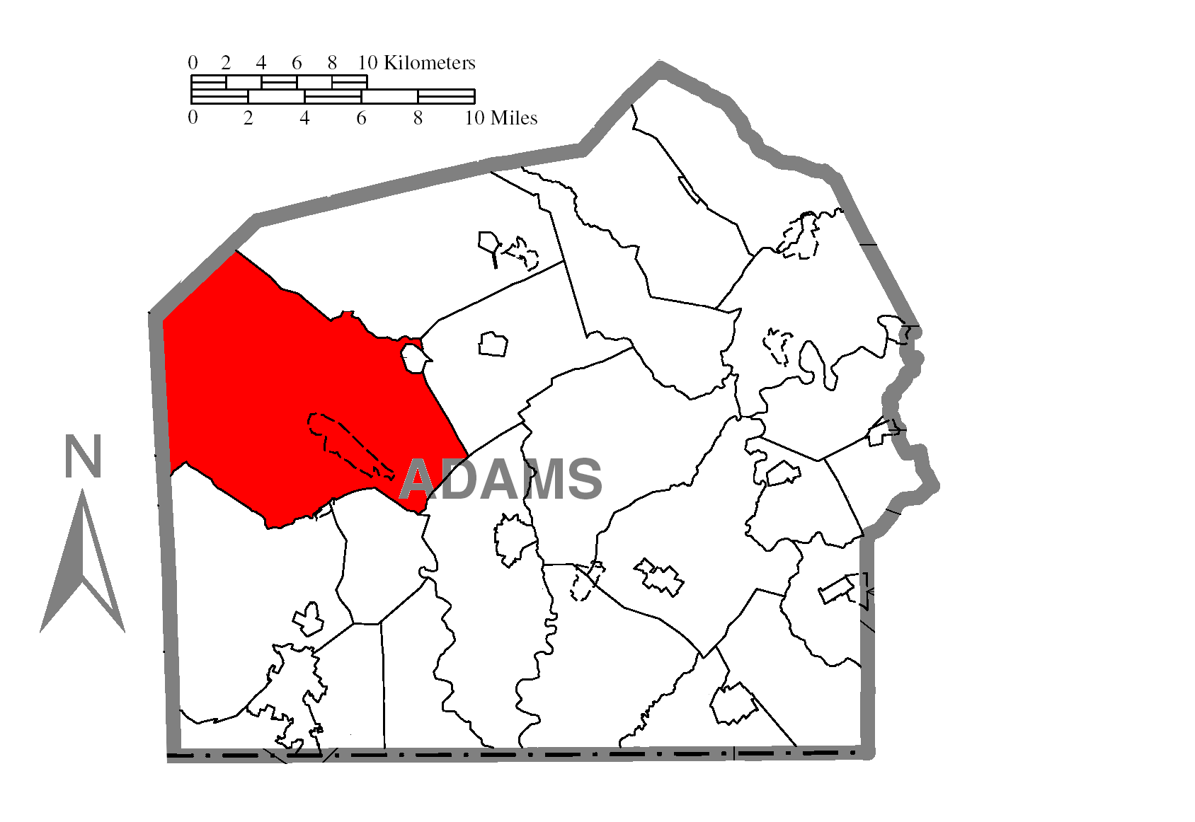 A map of Adams County showing Franklin Township, Pennsylvania (alternate) highlighted on the map.